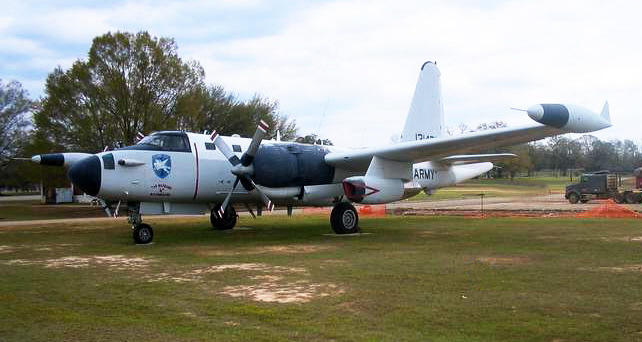 The Burbank Boomerang is one of five AP-2Es, also designated RP-2Es of the !st Aviation Company, Crazy Cats, operating on the Naval Air Facility at Cam Rahn Bay, S. Vietnam. These five aircraft flew SIGINT/ELINT missions in vietnam tasked as Ceflien Lion which was part of Project Igloo White. The mission was so dangerous the flight crew was made up entirely of volunteers. When the mission was explained a military commander he commented, "What a bunch of crazy cats." The moniker stuck and the squadron was hence known as the Crazy Cats. The plane is currently on display at the Ft. Rucker, Alabama Army Air Museum. The museum reports it has been recently repainted.